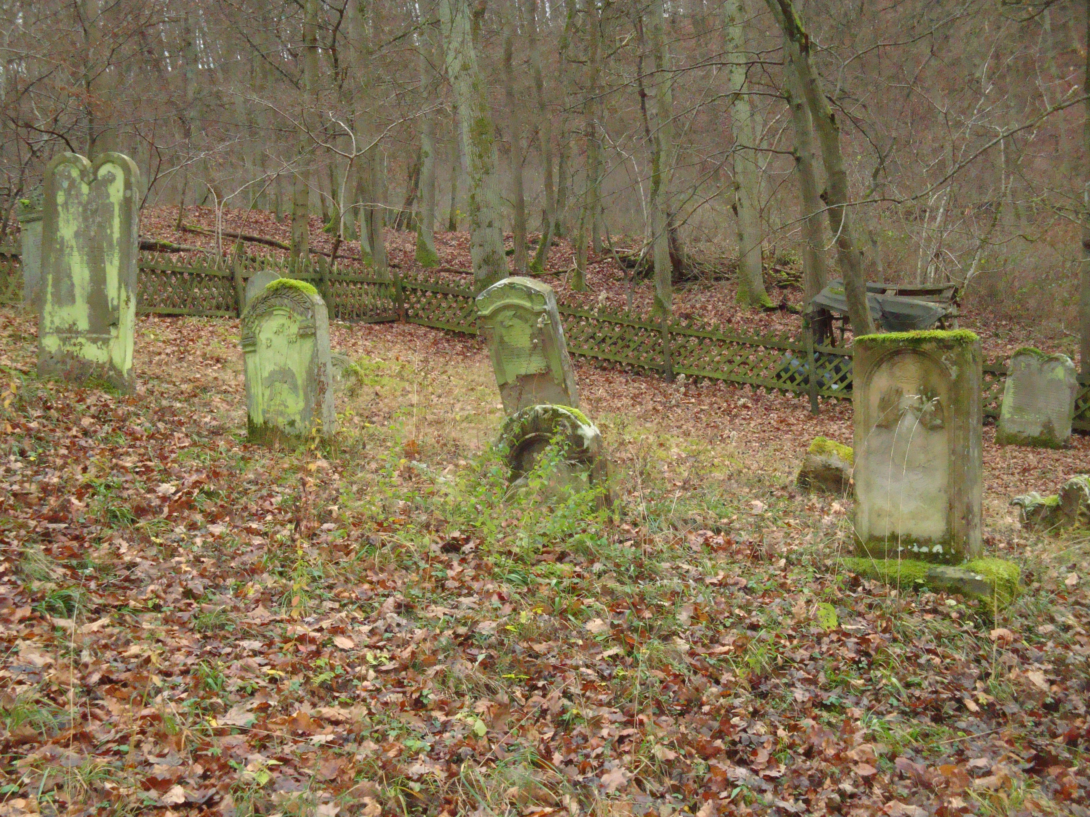 Old Jewish Cemetery Hochstätten,Rhineland-Palatinate,Germany